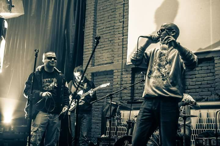 Bvana at concert (right)